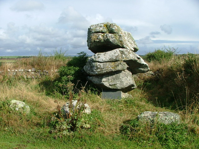 Giants Quoits. This large formation of rocks which had stood for thousands of years at Manacles Point and was re-sited to its present position in 1967 due to the expansion of workings at the nearby quarry.